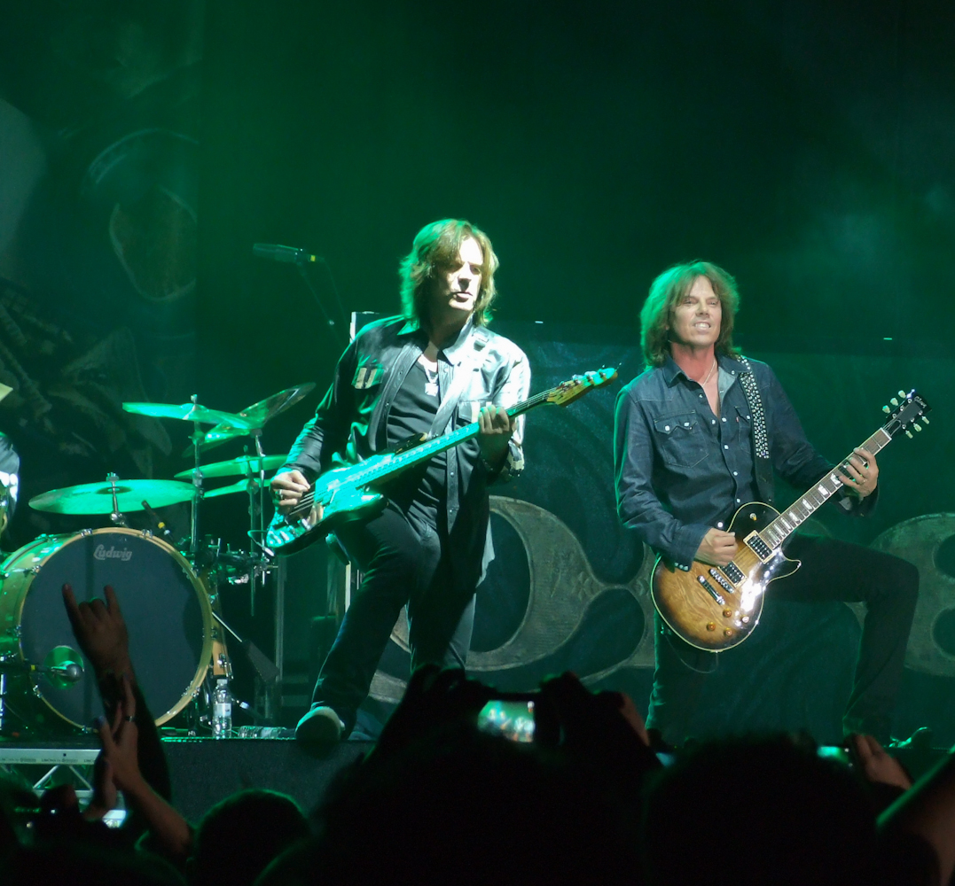 The Swedish rock band Europe performing in Festivalna hall, Sofia during their Bag of Bones tour 2012.